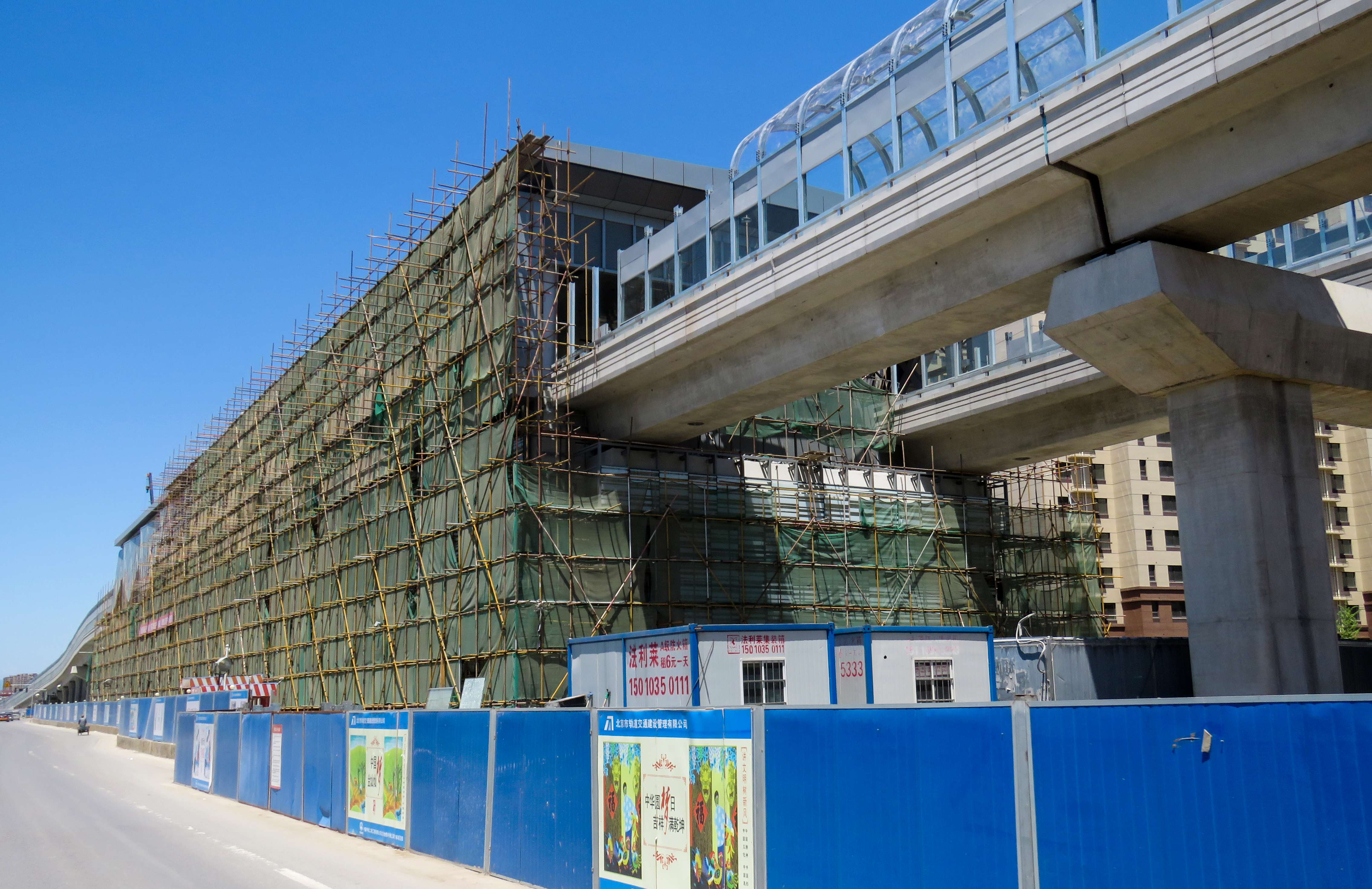 South of the terminus of BRT1... doesn't help too much.